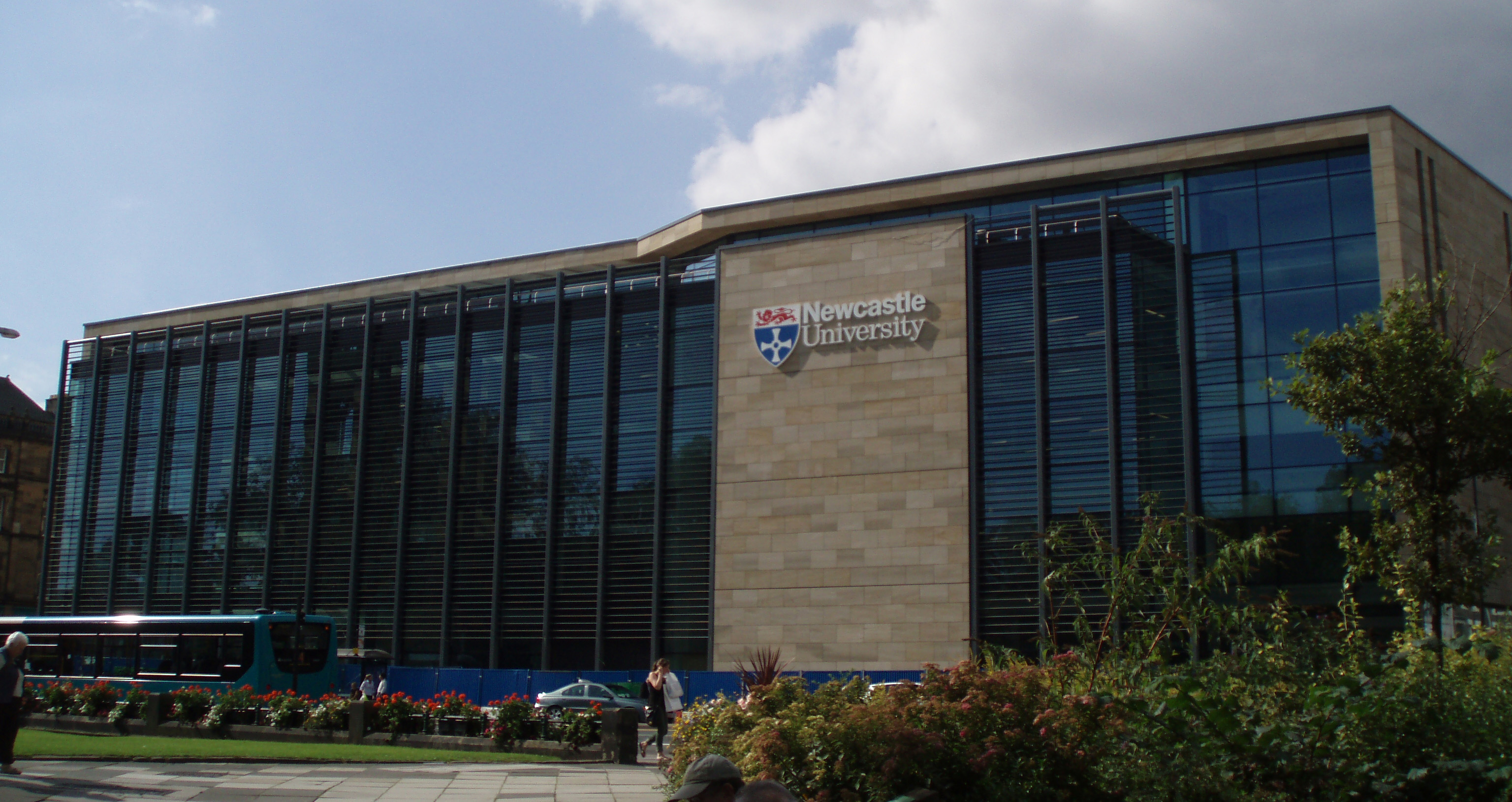 The King's Gate building at Newcastle University in September 2009, as it was nearing completion.